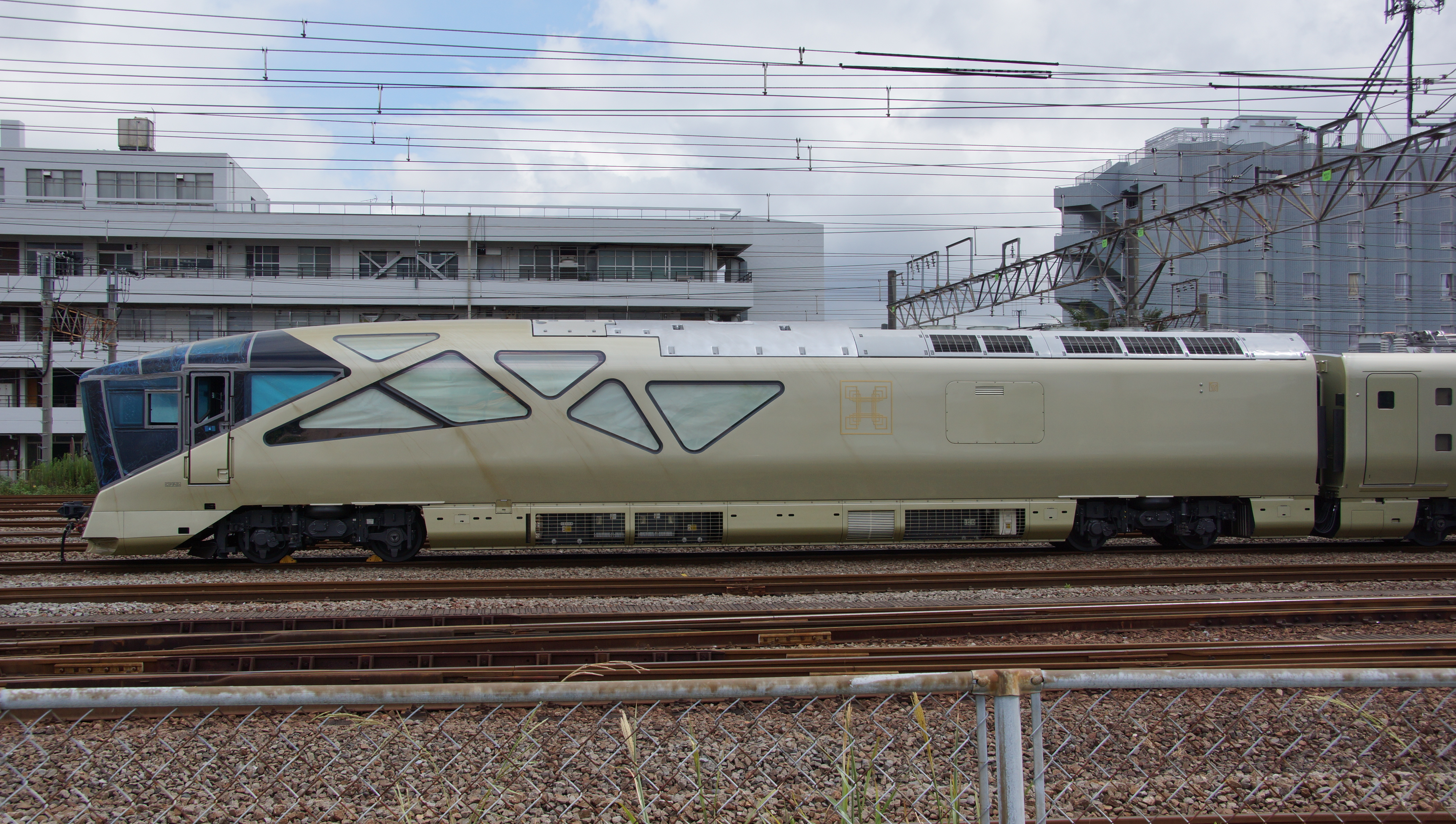 Driving car E001-10 (car 10) of the JR East E001 series Train Suite Shiki-shima cruise train at Shin-Tsurumi Yard while on delivery from the Kawasaki Heavy Industries factory in Kobe